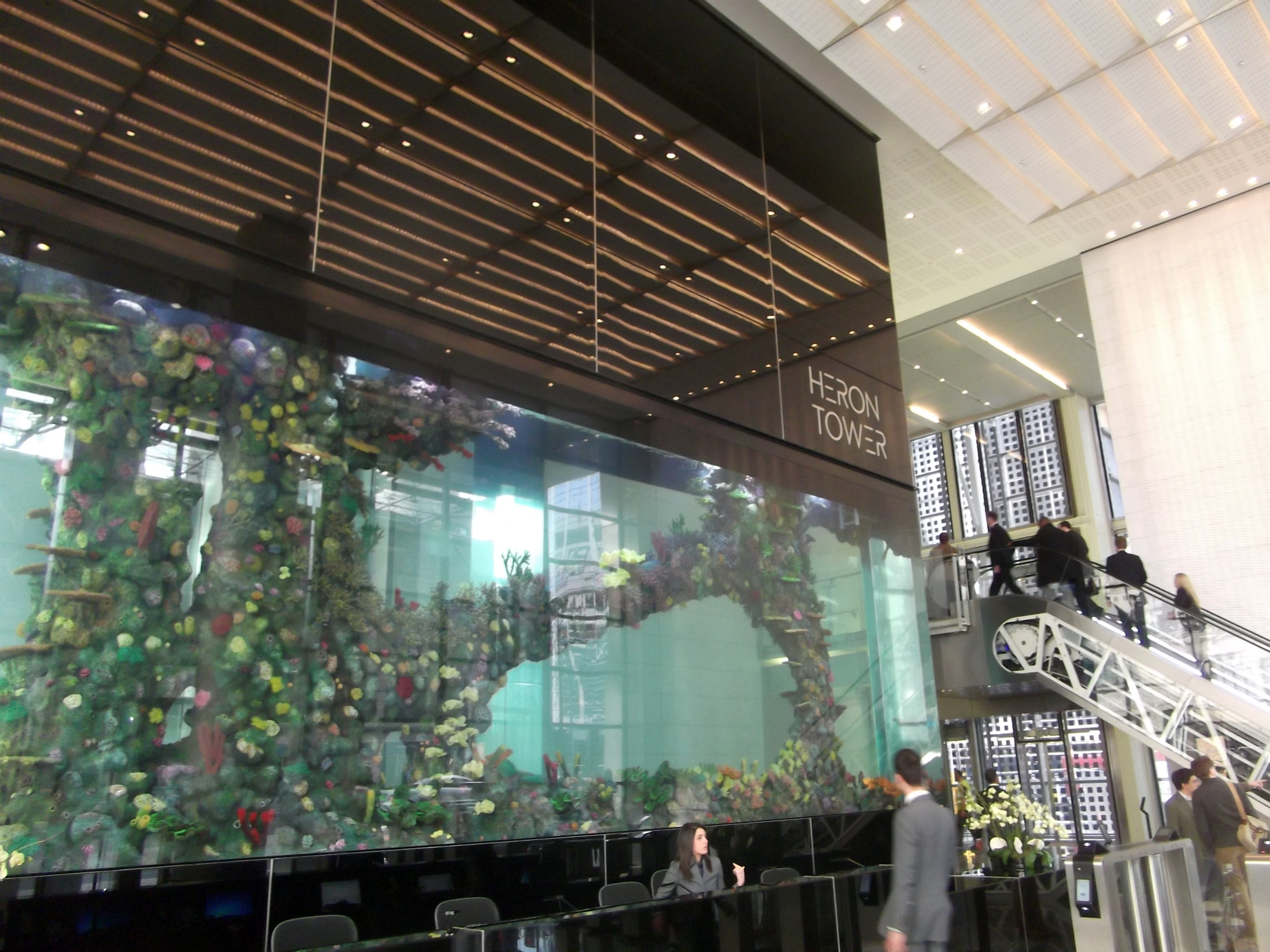 Heron Tower main entrance hall